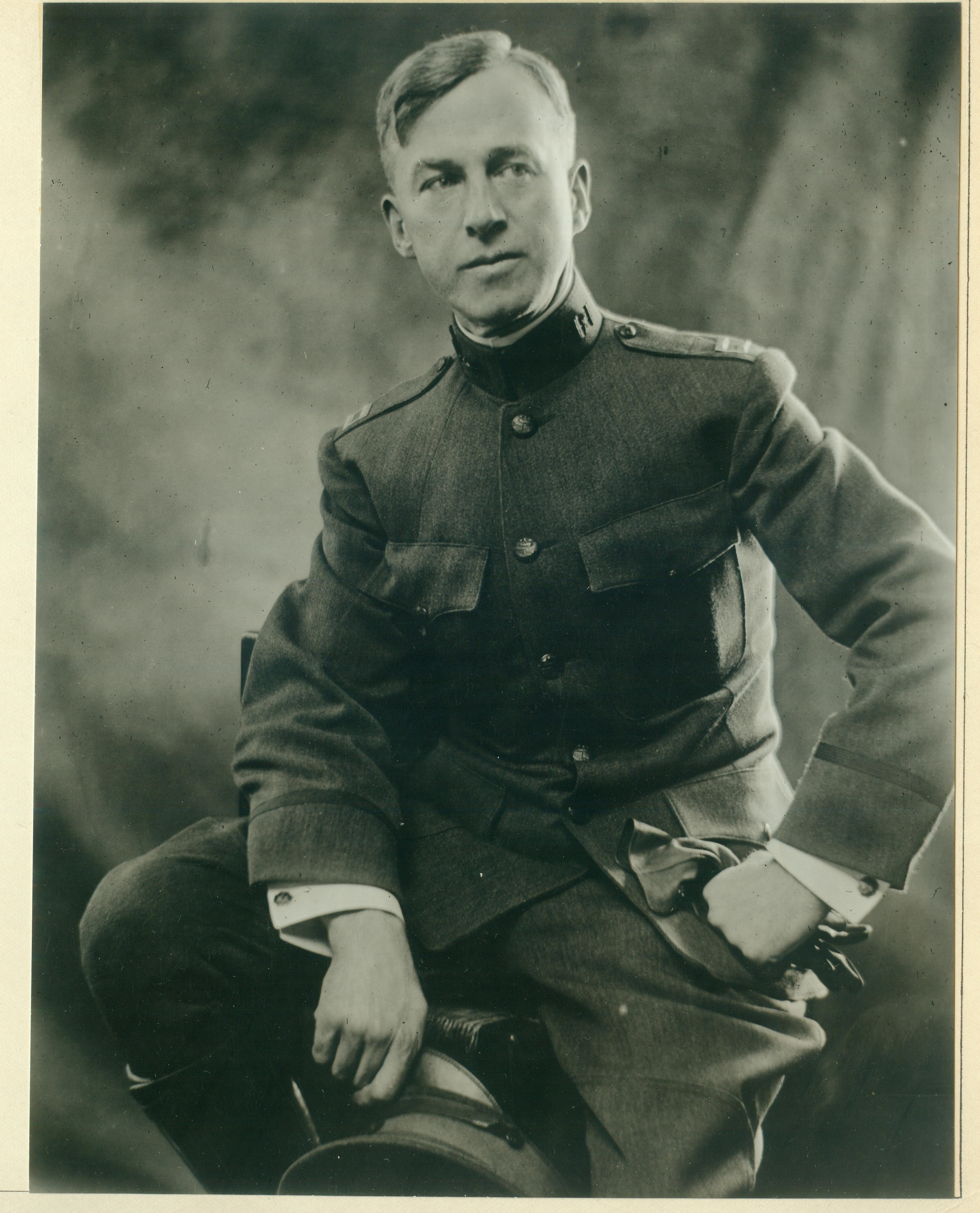 Scope and content: This is a photograph of Captain William Aylward, an artist with the American Expeditionary Forces during World War I.